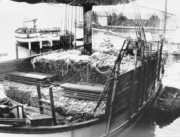 a Jekt with Stockfish from the 1870-1890s